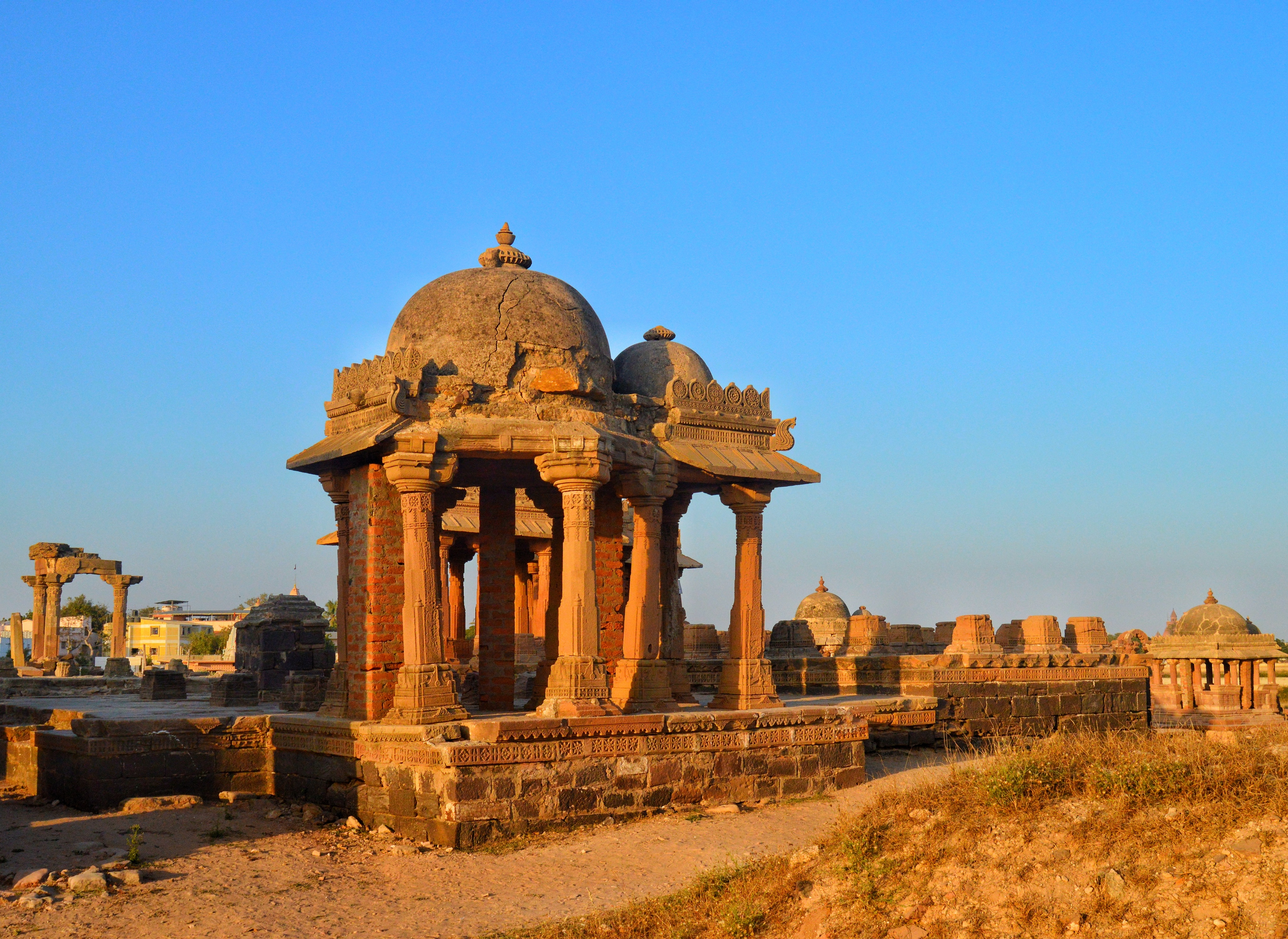 Back in time